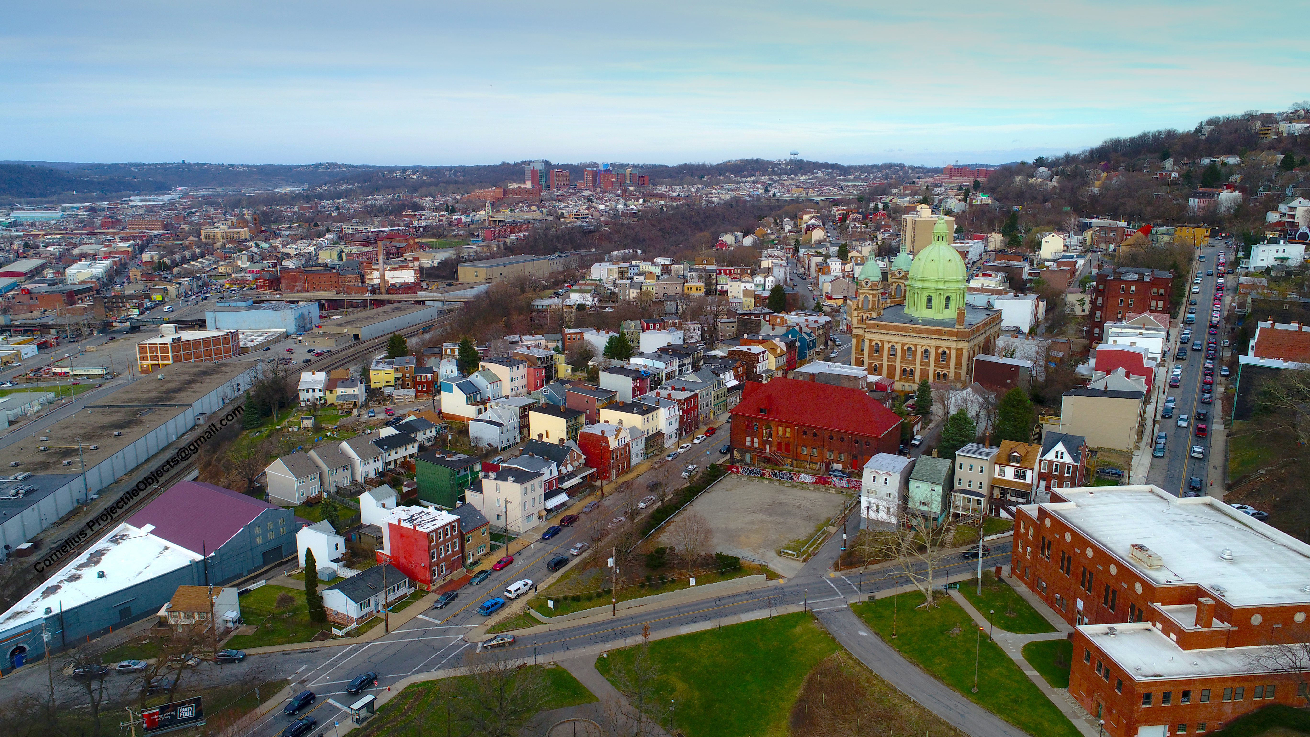 Photo of Polish Hill taken from West Penn Park by ProjectileObjects on 02-25-2017